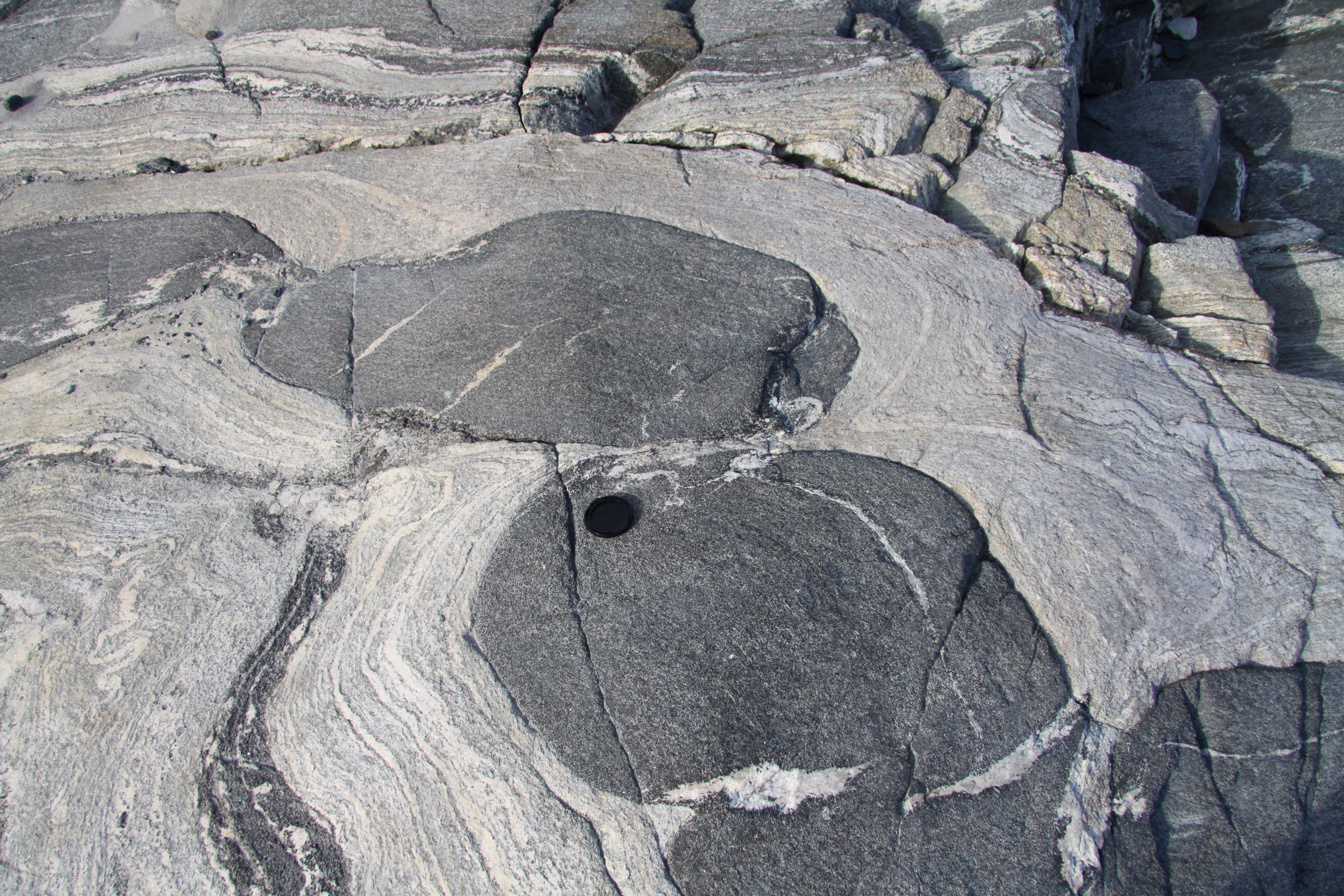 Boudinage near Kangerlussuaq, Western Greenland. The lid of the camera as a scale